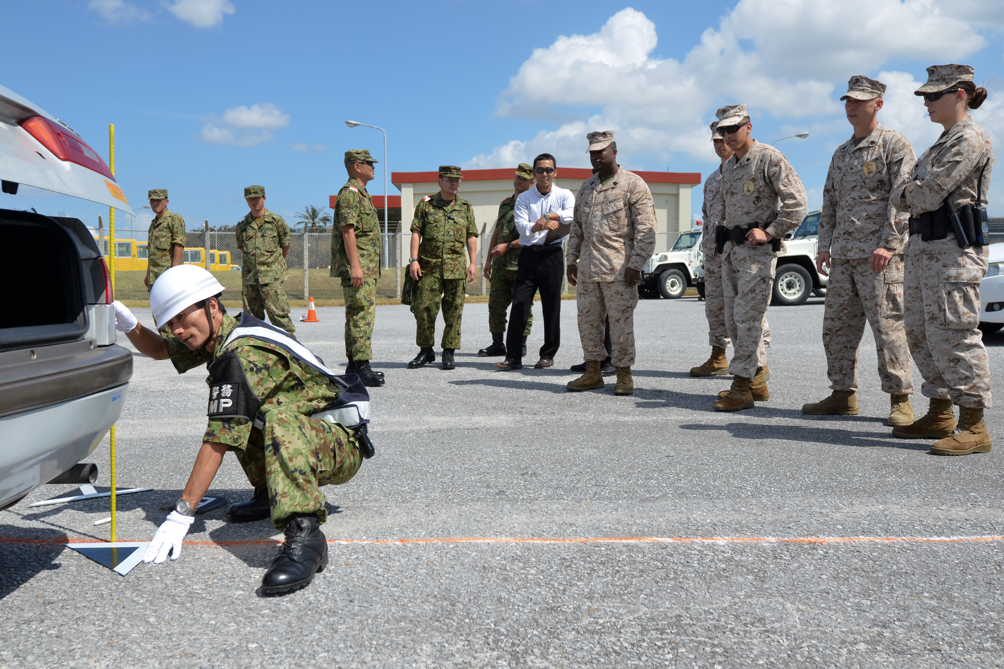 Japan Ground Self-Defense Force military policemen explain their accident response procedures to Marine MPs during a bilateral training event at Camp Foster Oct. 2. The training included both a classroom session and live demonstrations of investigation procedures at a staged accident scene by the JGSDF and Marine MPs. The JGSDF MPs are with the 136th Western District Military Police, Western Army Military Police, MP Headquarters. The Marine MPs are with the Provost Marshal’s Office, Headquarters and Service Battalion, Marine Corps Base Camp Butler.